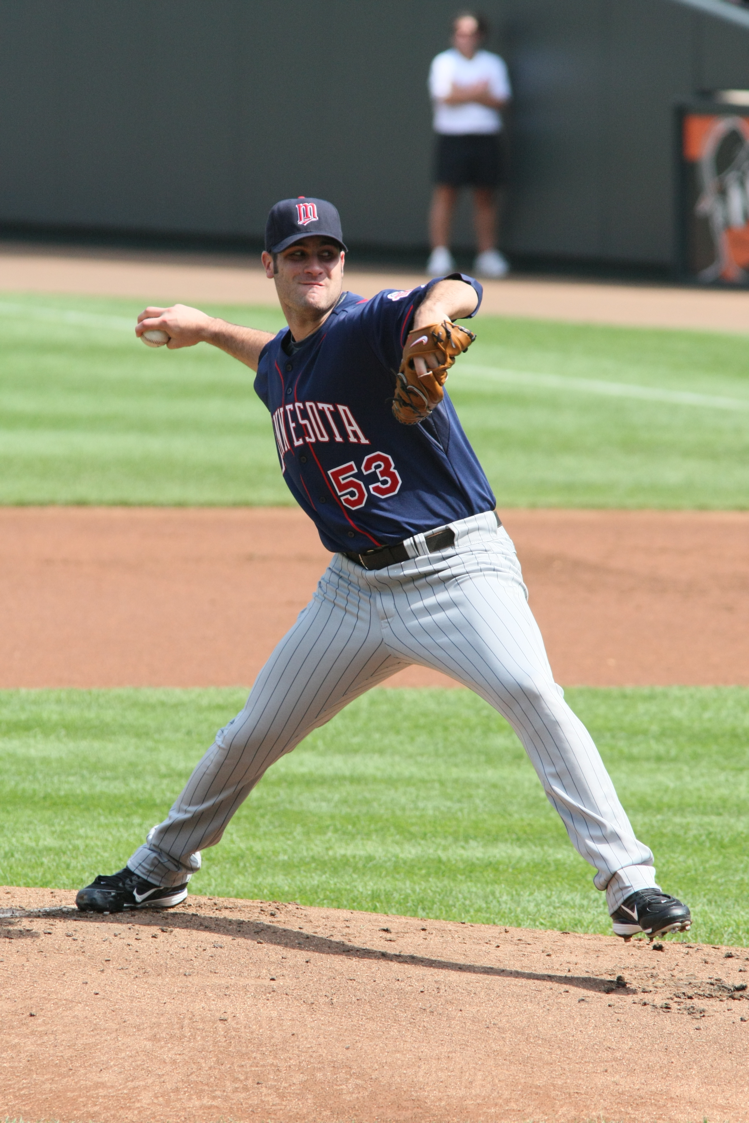 Nick Blackburn